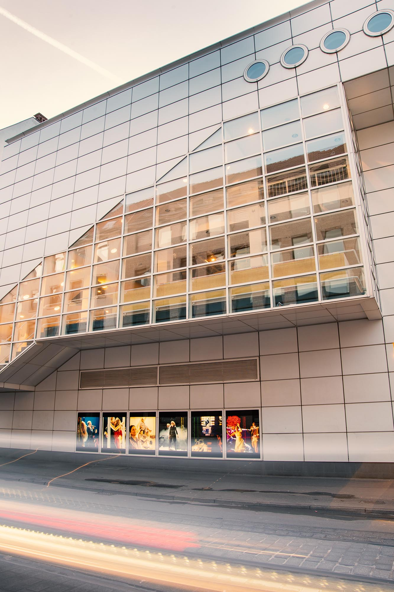 Schauspielhaus Hannover, Schaukästen in der Prinzenstraße